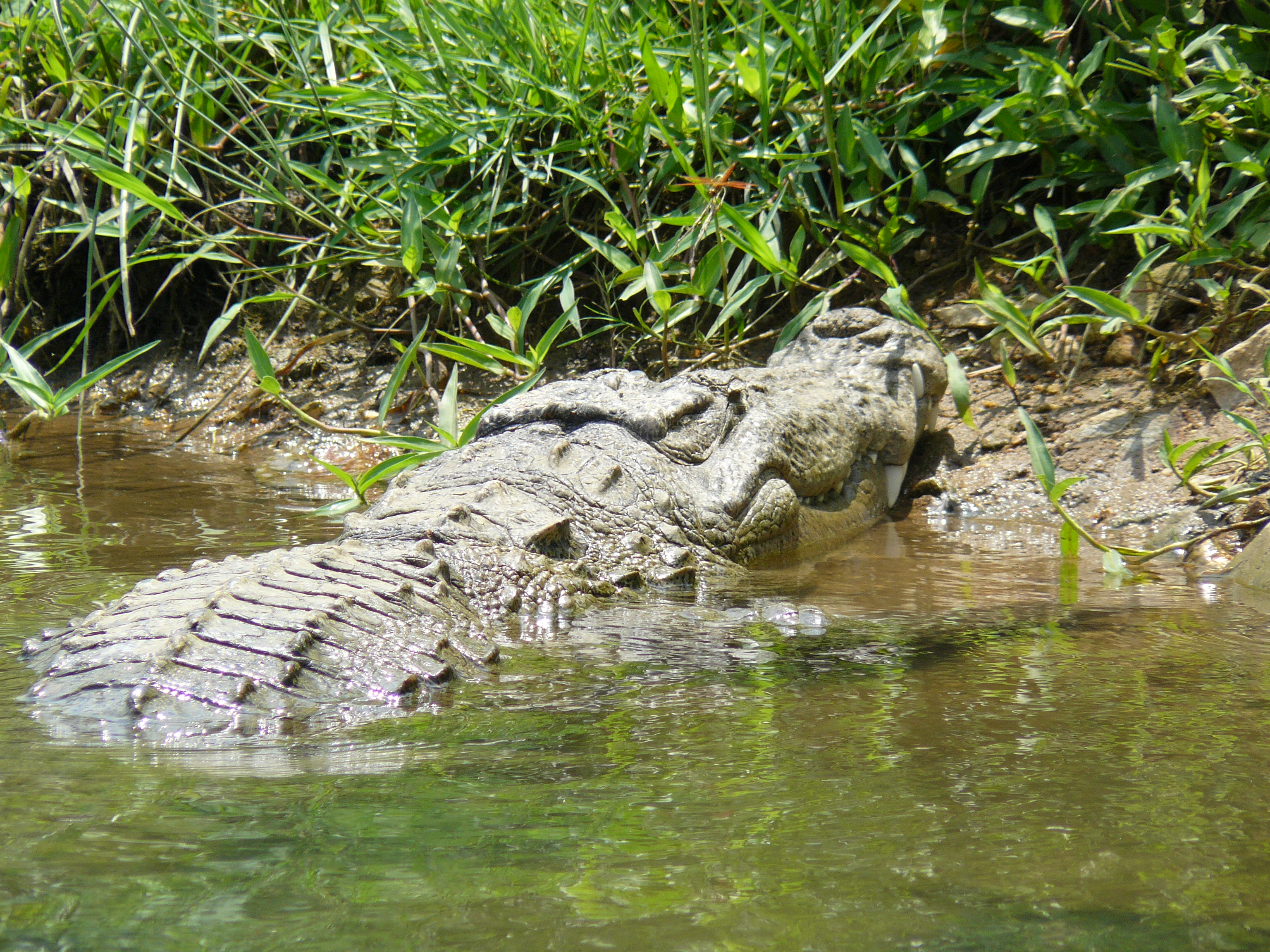 A Marsh Crocodile (Crocodylus palustris) in the Ranganthittu Bird Sanctuary - Karnataka, India